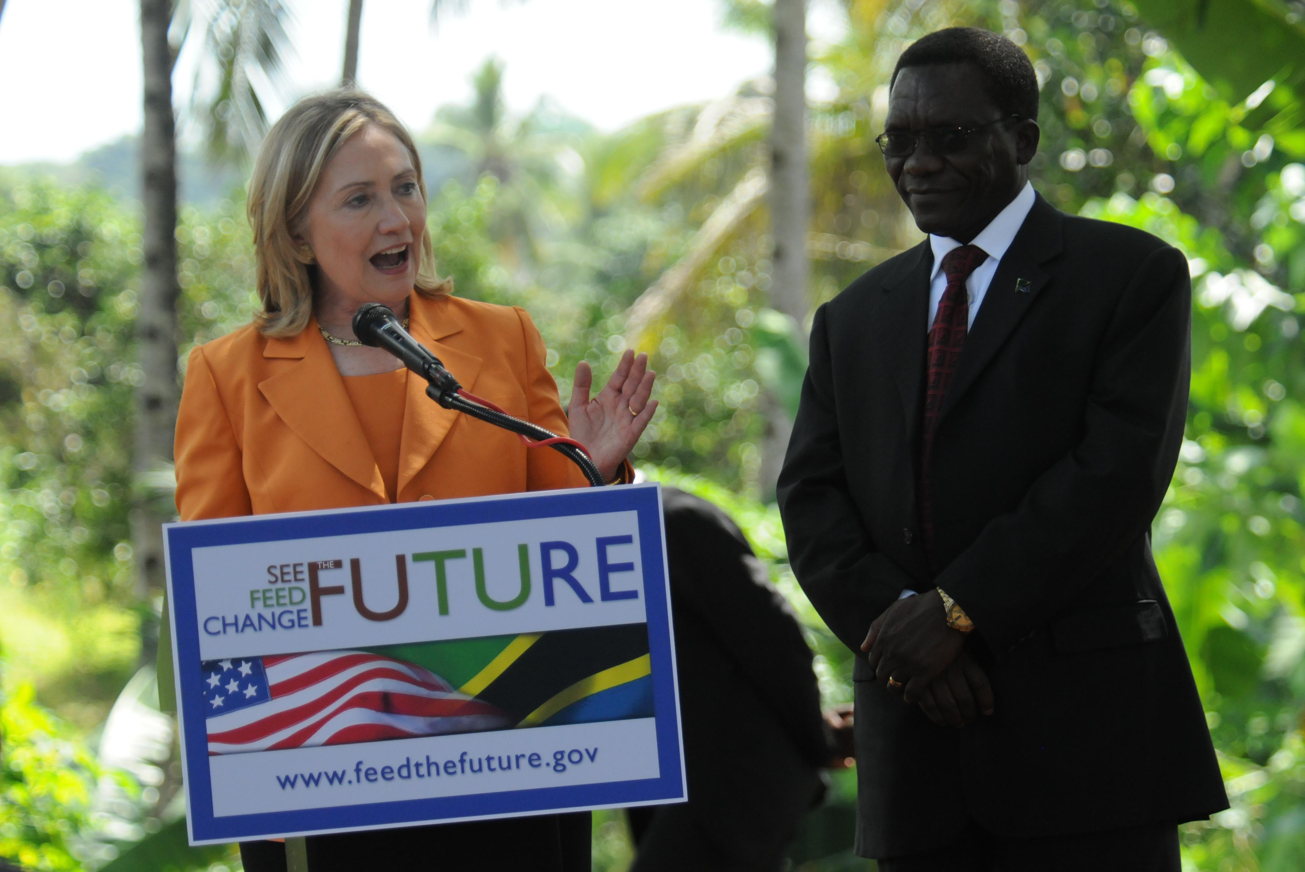 U.S. Secretary of State Hillary Clinton with Tanzanian Prime Minister Mizengo Pinda.